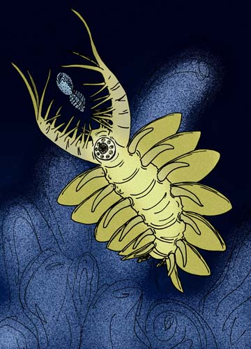 Reconstruction of the suspected Sirius Passet anomalocarid, Pambdelurion whittingtoni, menacing the vetulicolian Ooedigera peeli, from Cambrian Greenland. (C) Stanton F. Fink